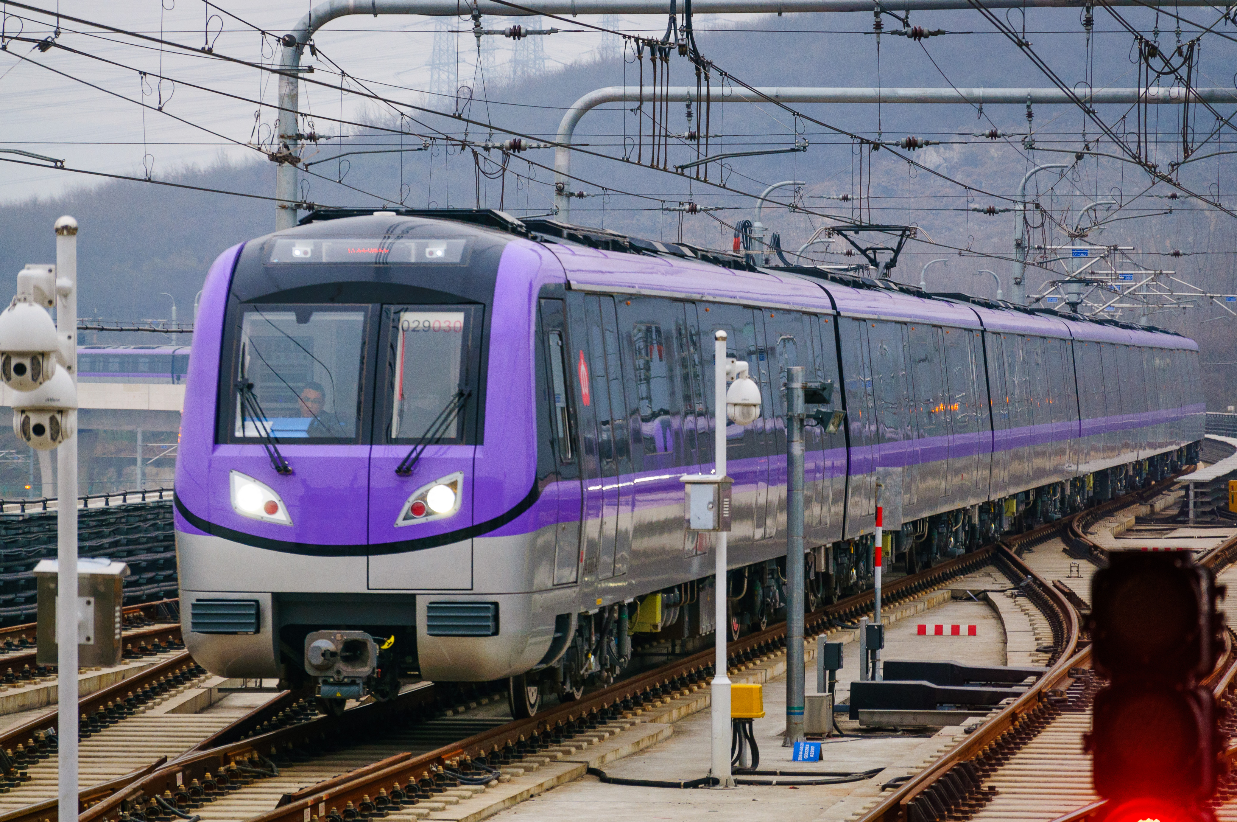 One set of Nanjing Metro Line 4 train is approaching Xianlinhu station